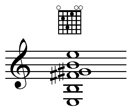 Mu chord on E, for guitar.